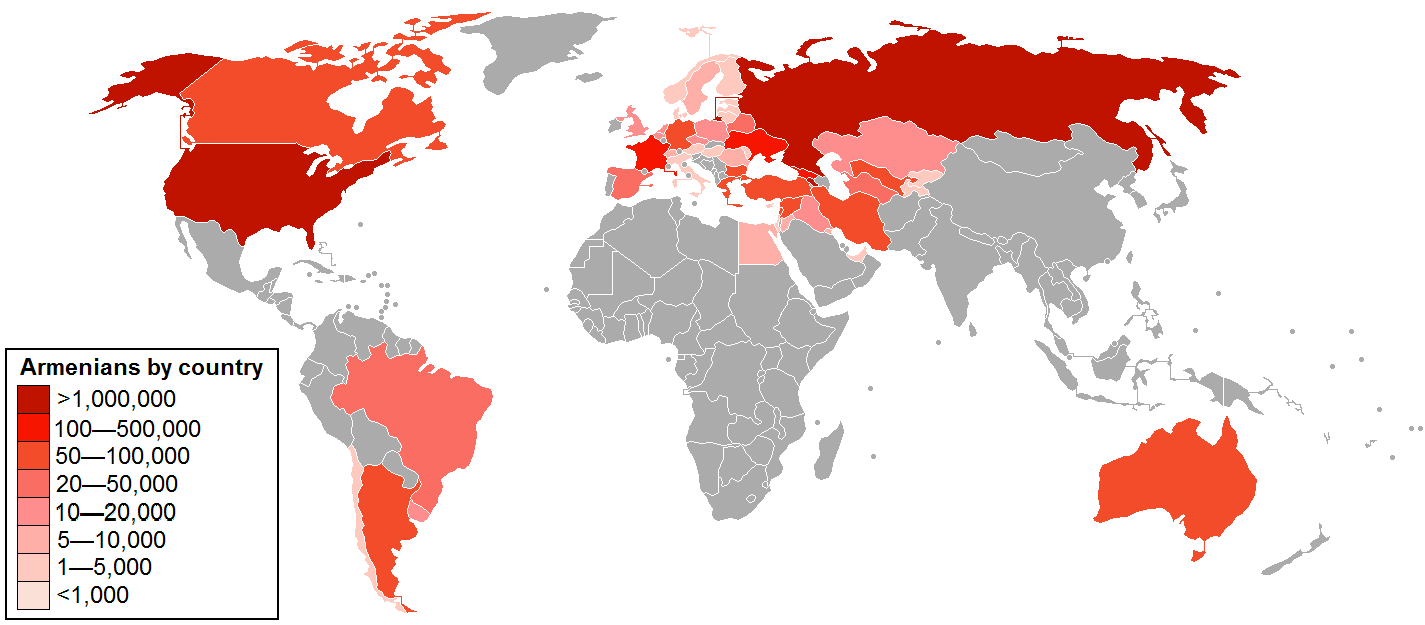 Armenian Diaspora